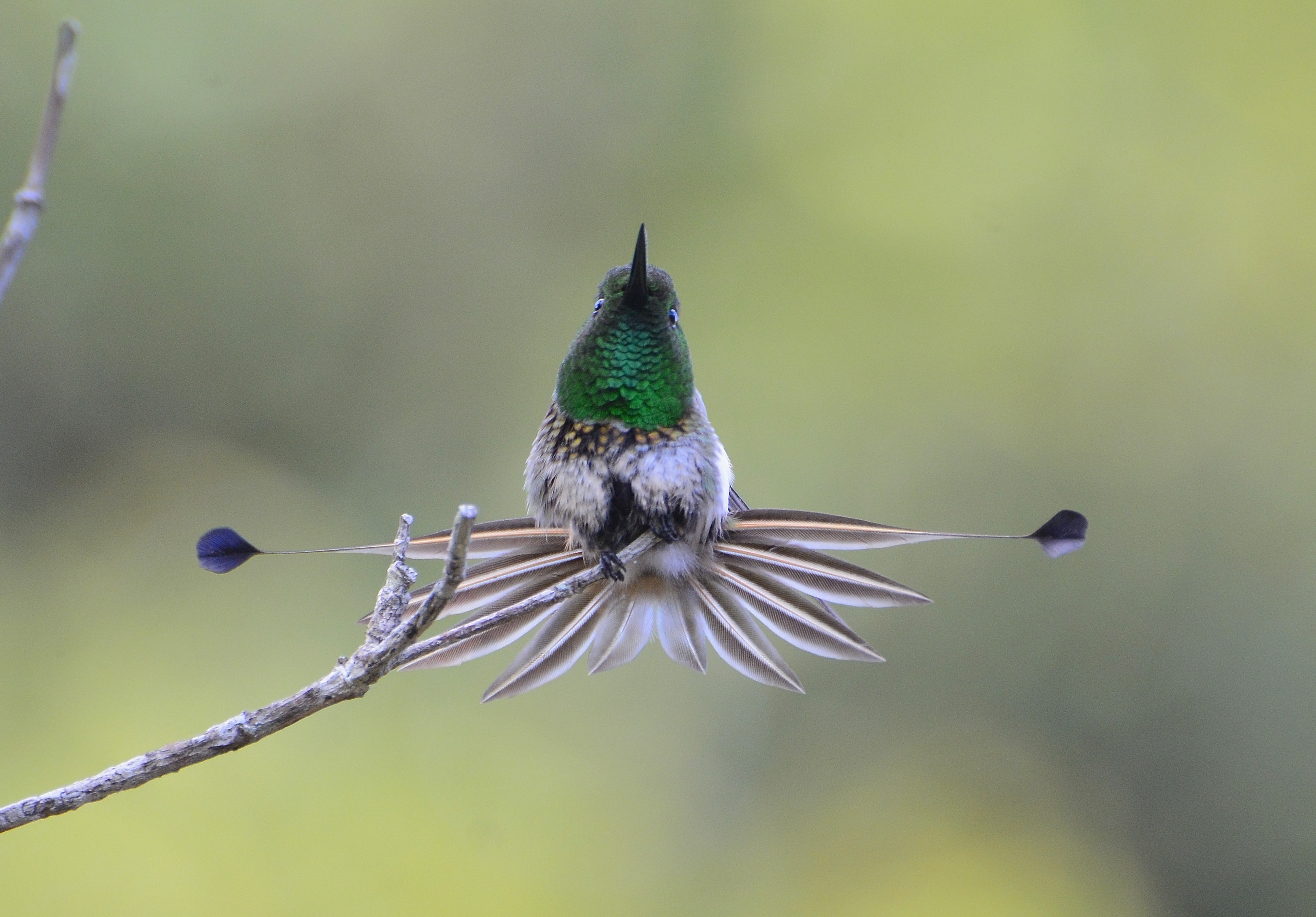 Racket-tailet Coquette